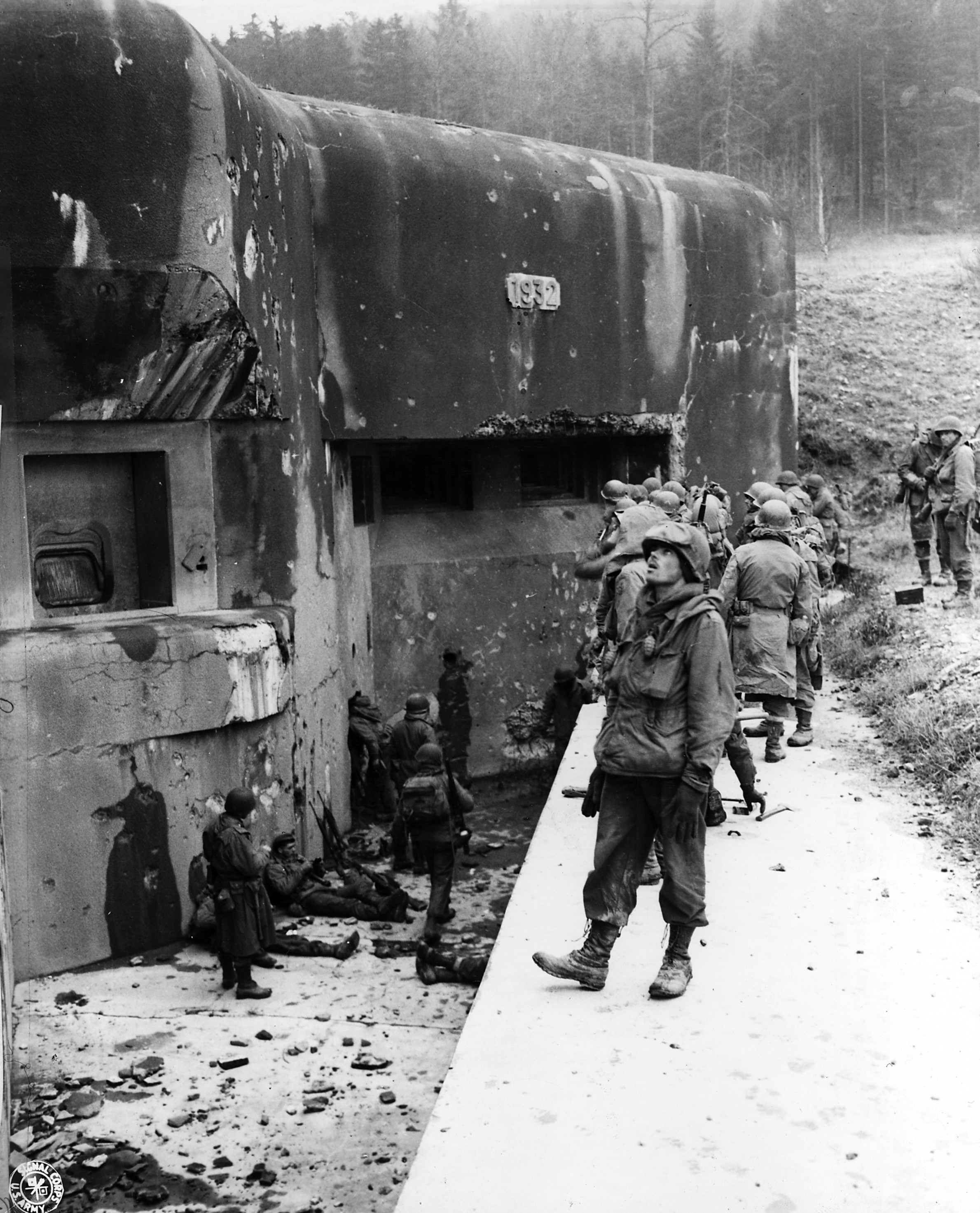 Maginot Linie Public Domain ARC Identifier: 292568 American soldiers standing at battery 8 location that is one of the 75 mm gun batteries of the Hackenberg fortications of the Maginot Line nea Metz France. This battery was used by the Germans to shell the advancing American 3rd Army of General Patton.